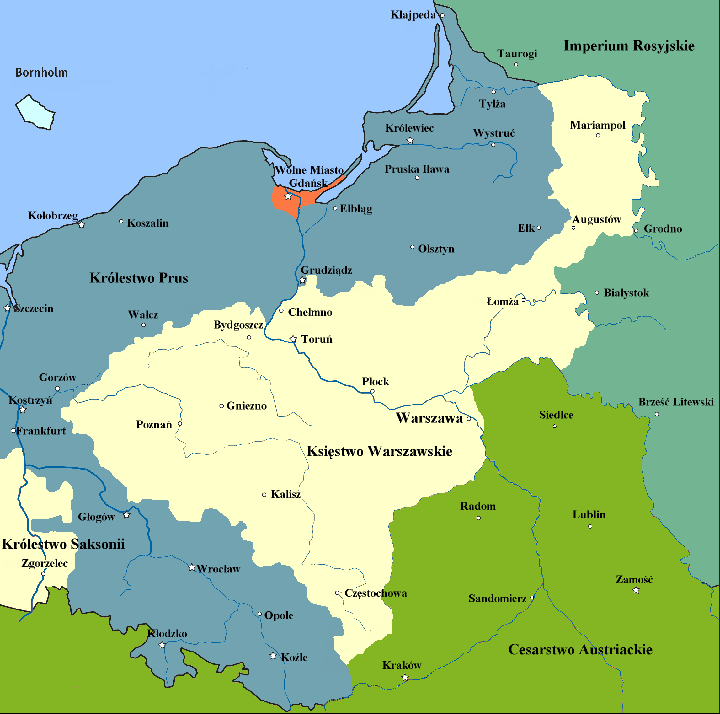 Duchy of Warsaw (1807-1809) : Duchy of Warsaw (Księstwo Warszawskie) in off-white ; Kingdom of Prussia (Królestwo Prus) in light-sea-green ; Austrian Empire (Cesarstwo Austrii) in yellow-green ; Russian Empire (Imperium Rosyjskie) in dark-sea-green.